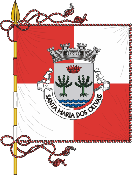 Flag of Portuguese civil parish of Santa Maria dos Olivais, Lisbon.